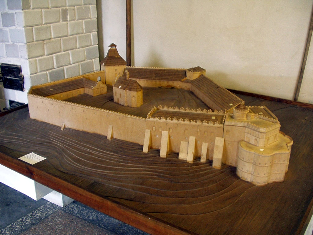 The model of Medzhybizh Castle at a local museum